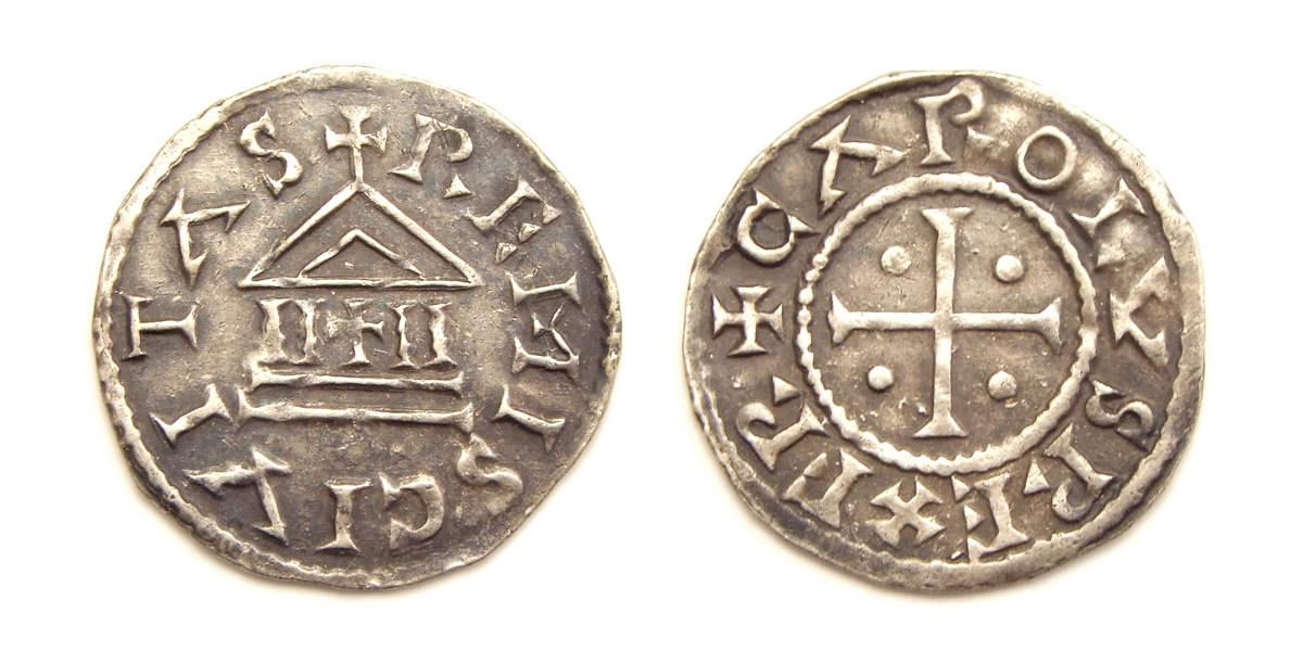 Denier of Charles the Bald, struck Reims between 840-864. Class 1, type e: Cross and temple. Obverse: Temple + REMIS CIVITAS. Reverse: Cross with one pellet in each angle + CAROLVS REX FR.